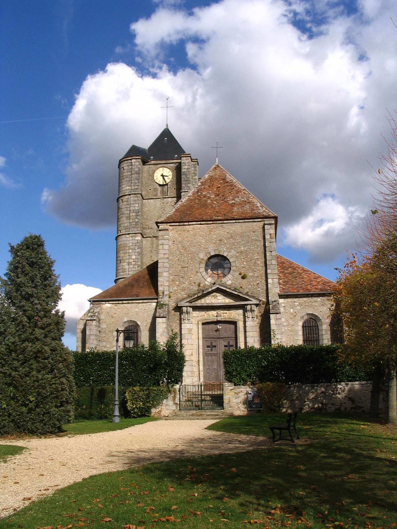 The Roman Catholic church of Ozouer-le-Voulgis, Seine-et-Marne, France.